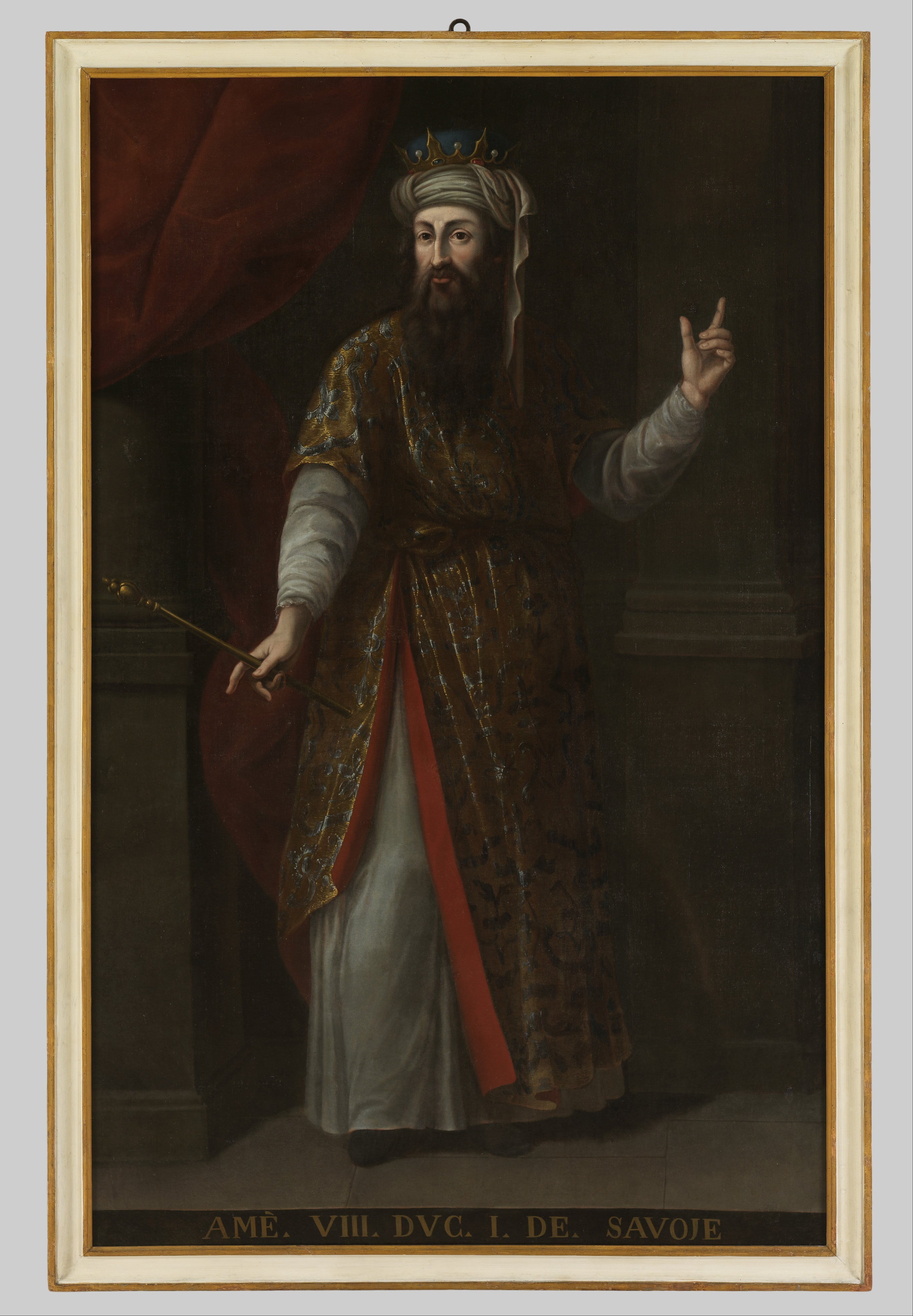 portait of Amedeo VIII